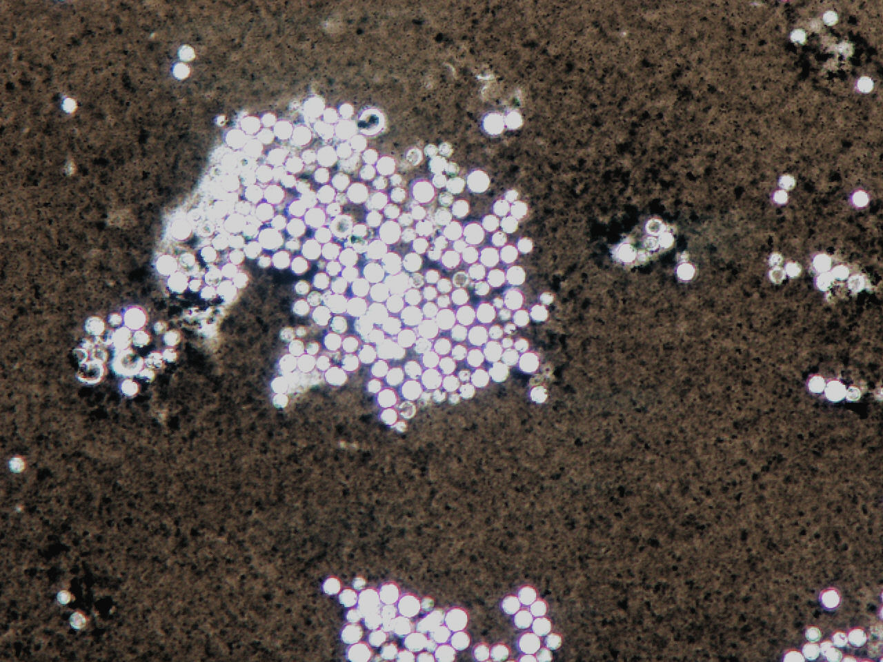 Cryptococcus neoformans, Indian ink staining. Preparation by Tina Demers